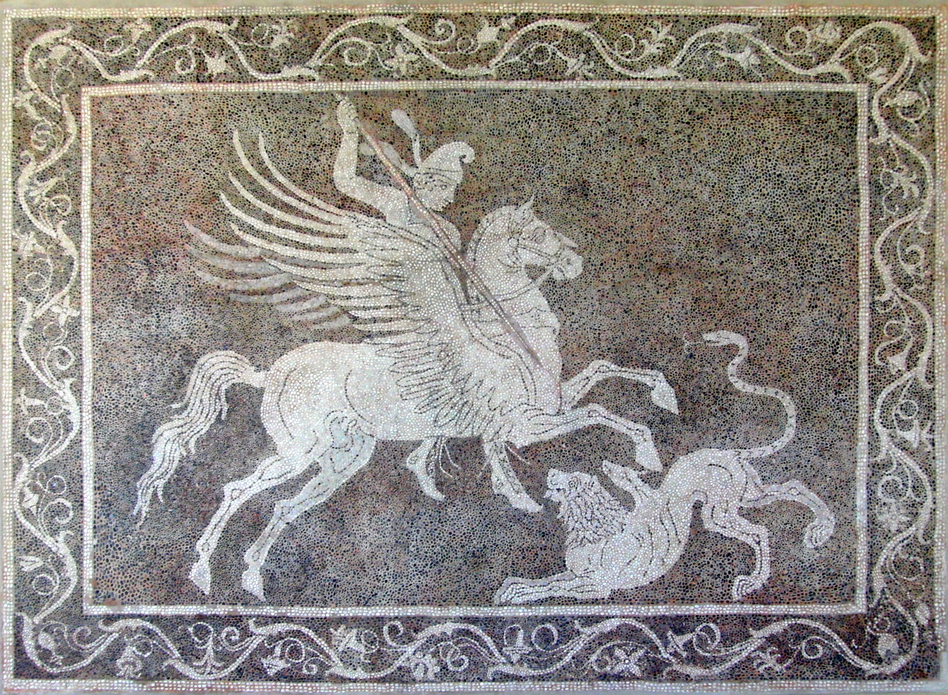 Pebble mosaic depicting Bellerophon killing Chimaera, in Rhodes archaeological museum